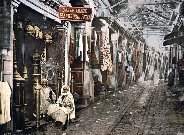 Photograph of Souk Et-Trouk, Tunis, Tunisia. This color photochrome print was made in 1899 in Tunis, Tunisia.